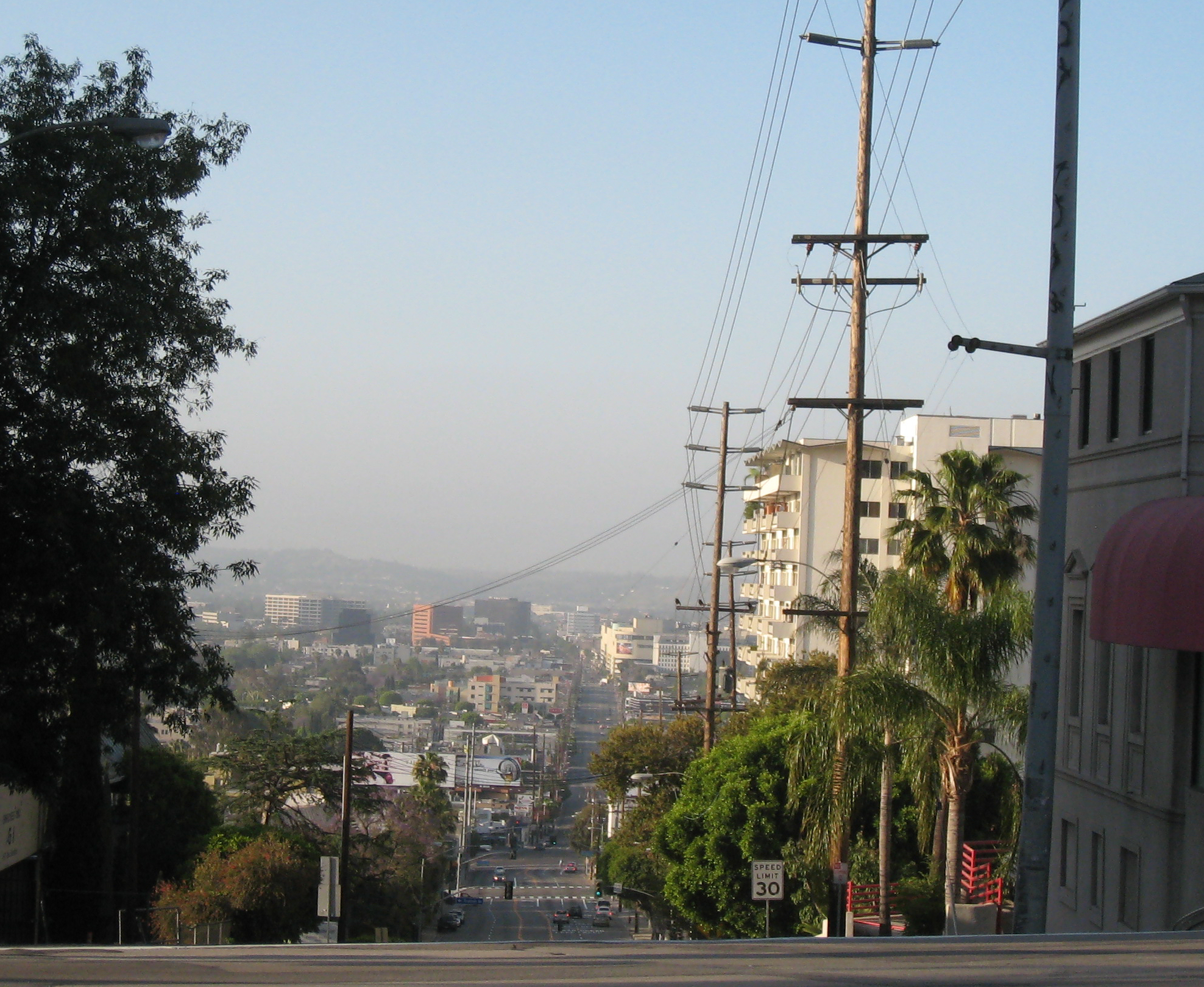 Beginning of La Cienega Boulevard, at intersection with Sunset Boulevard, in West Hollywood, California. View to south.